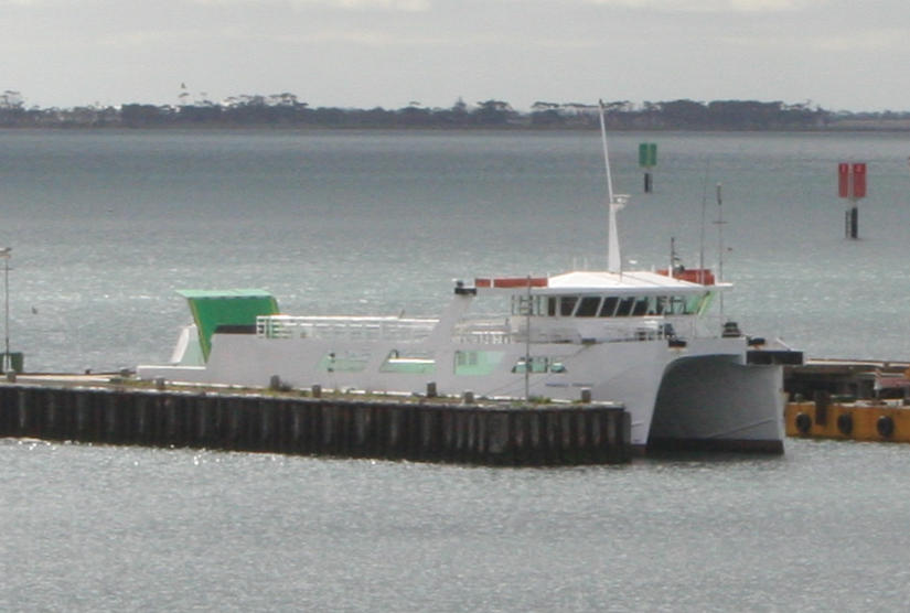 The Peninsula Princess in Geelong, 2008. Once used on the Peninsula Searoad Transport, Queenscliff - Sorrento service, she was bought back into use in 2008 when one of the bigger ships was in dry dock.